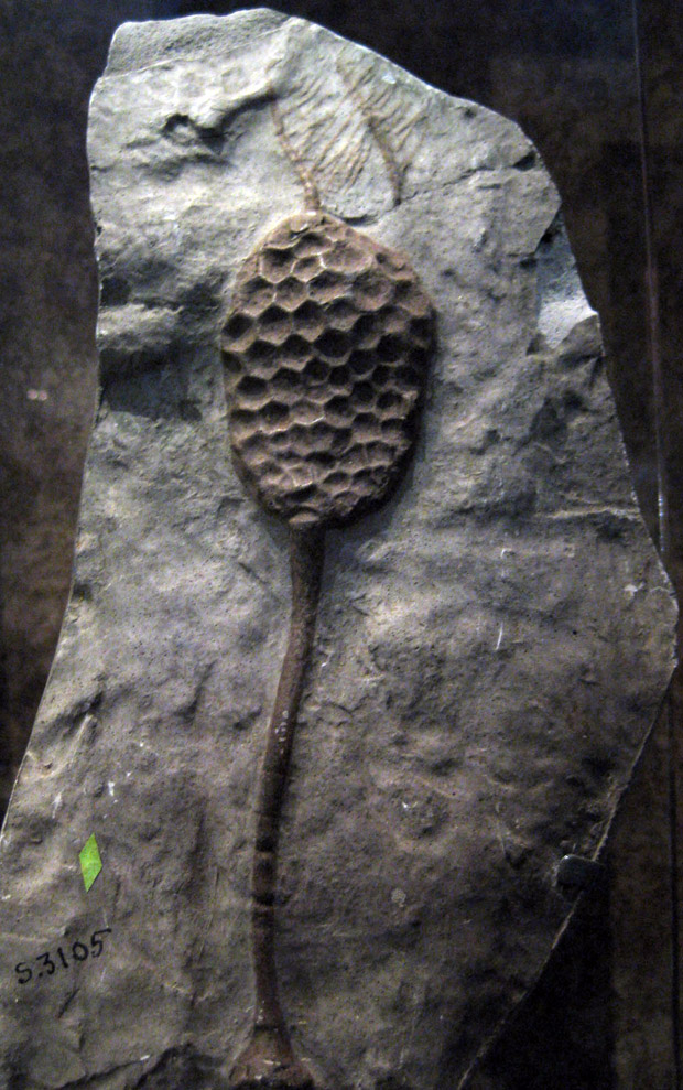 Paracrinoid fossil specimen of Comarocystites punctatus on display at the Smithsonian, Washington, DC